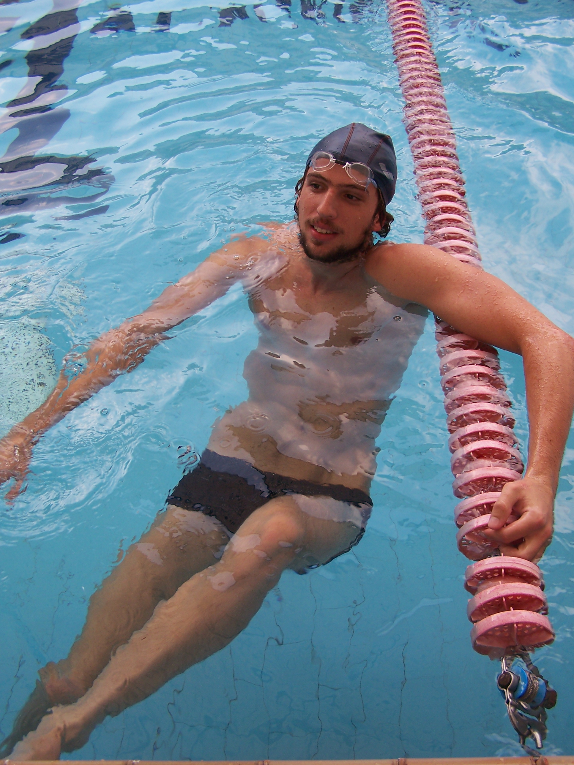 Shai Livnat in the Israeli Championships in swimming 2010 מקור נוצר על ידי מעלה היצירה יוצר BASWIM